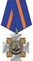 Order of Kutuzov (Russia)